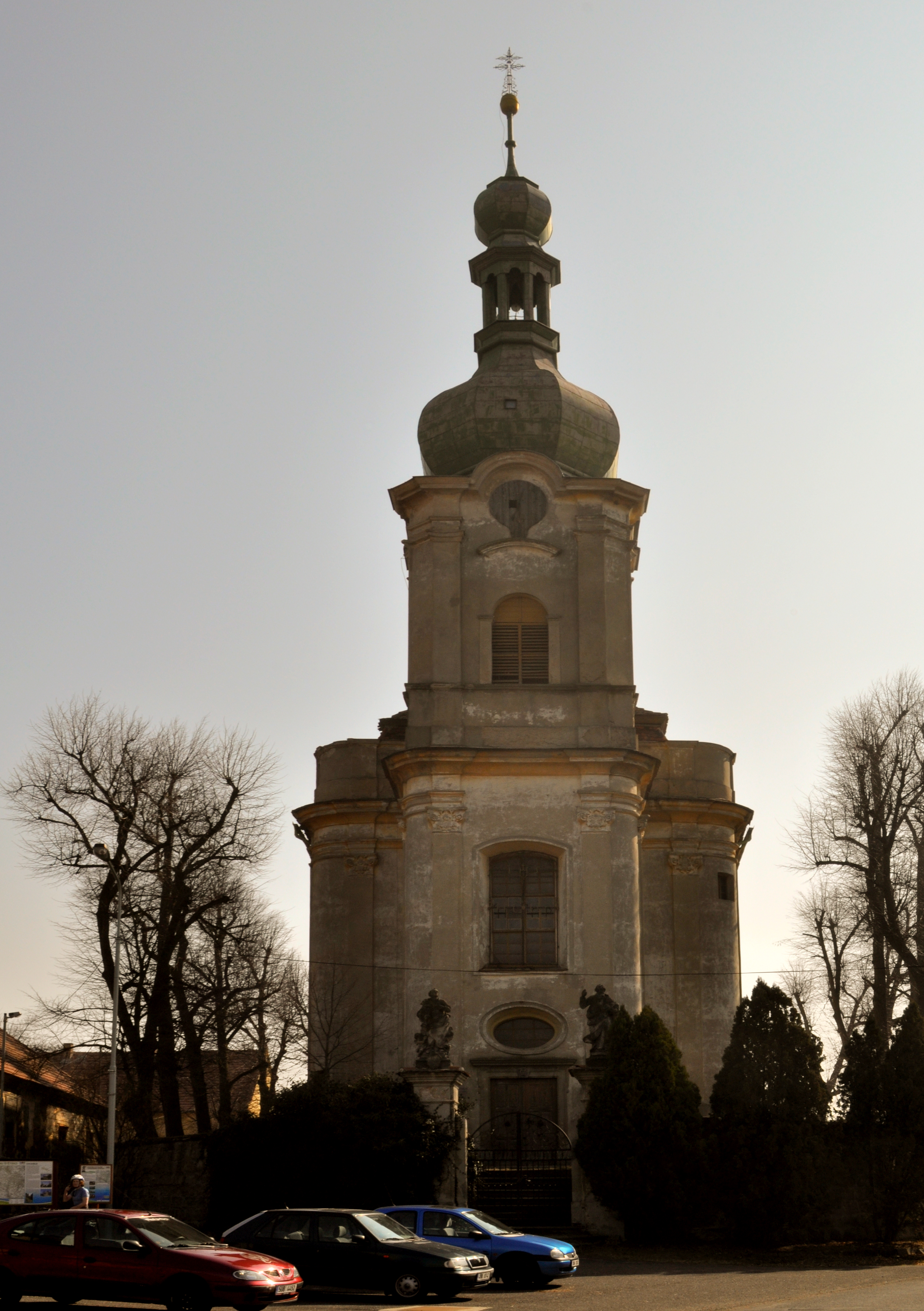 Saint Peter and Paul Church, Chcebuz, Ústí nad Labem Region